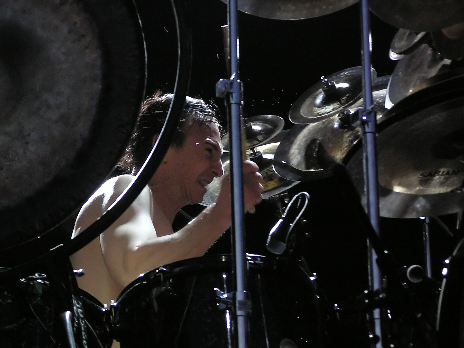 Bozzio performing with Fantômas, Quart Festival 2005 (Norway)